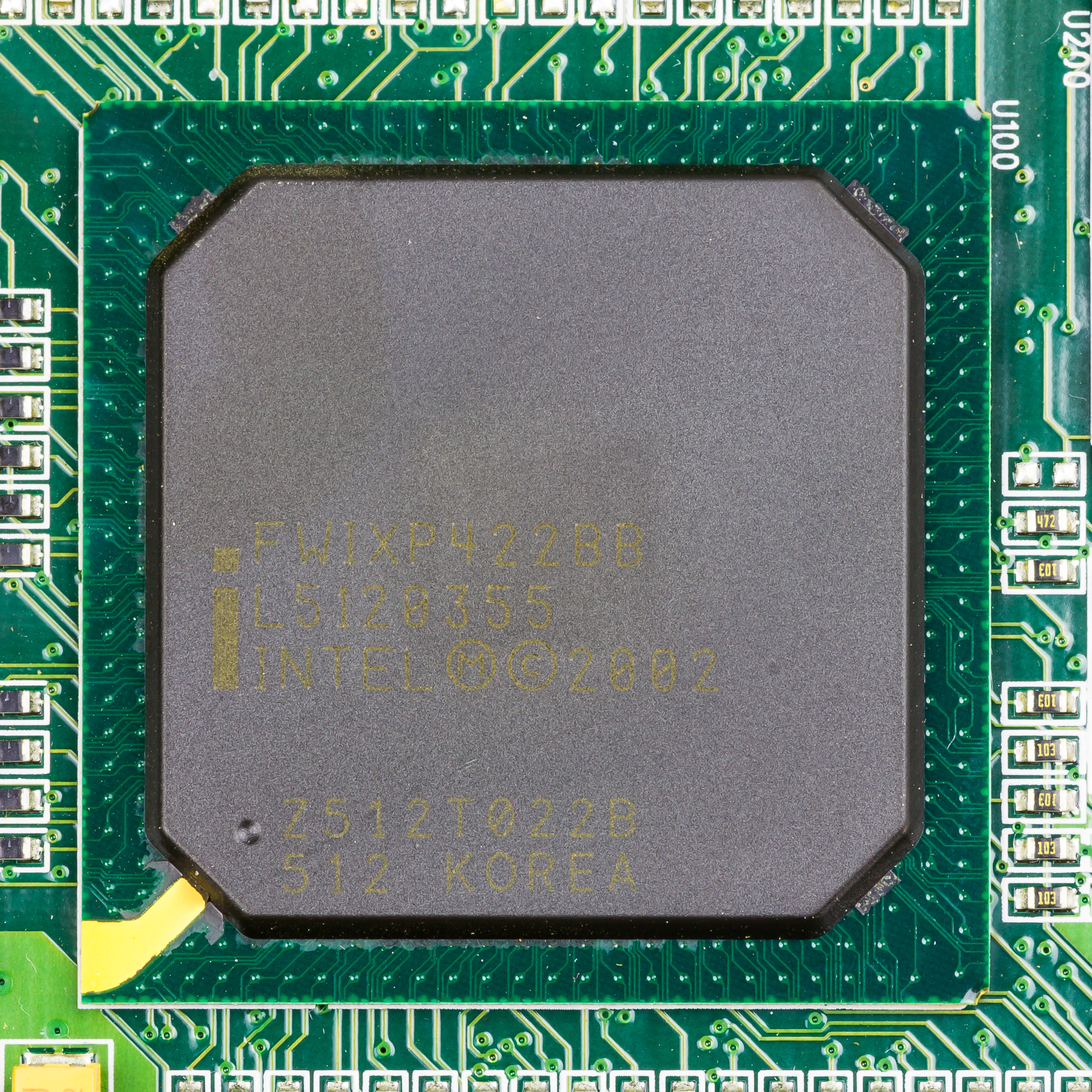 Intel FWIXP422BB (IXP42X Product Line of Network Processors) on mainboard of Surf@home II